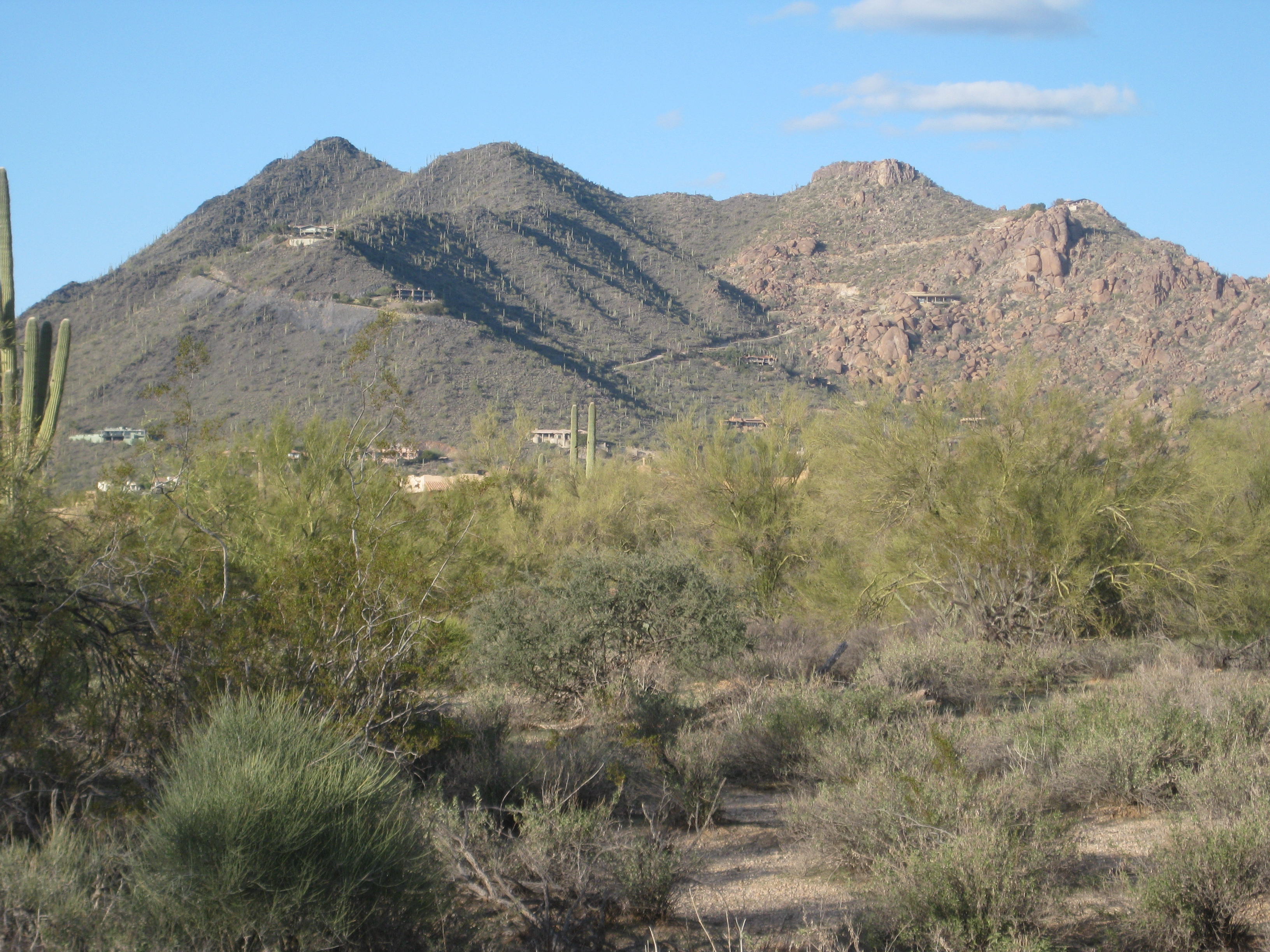 Black Mountain southern view.